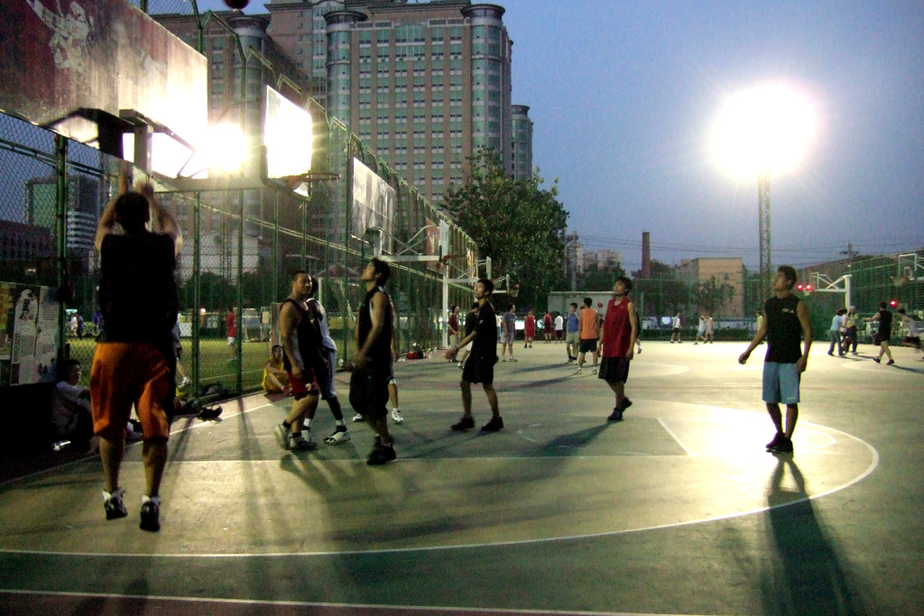 Basketball being played in a Beijing neighborhood